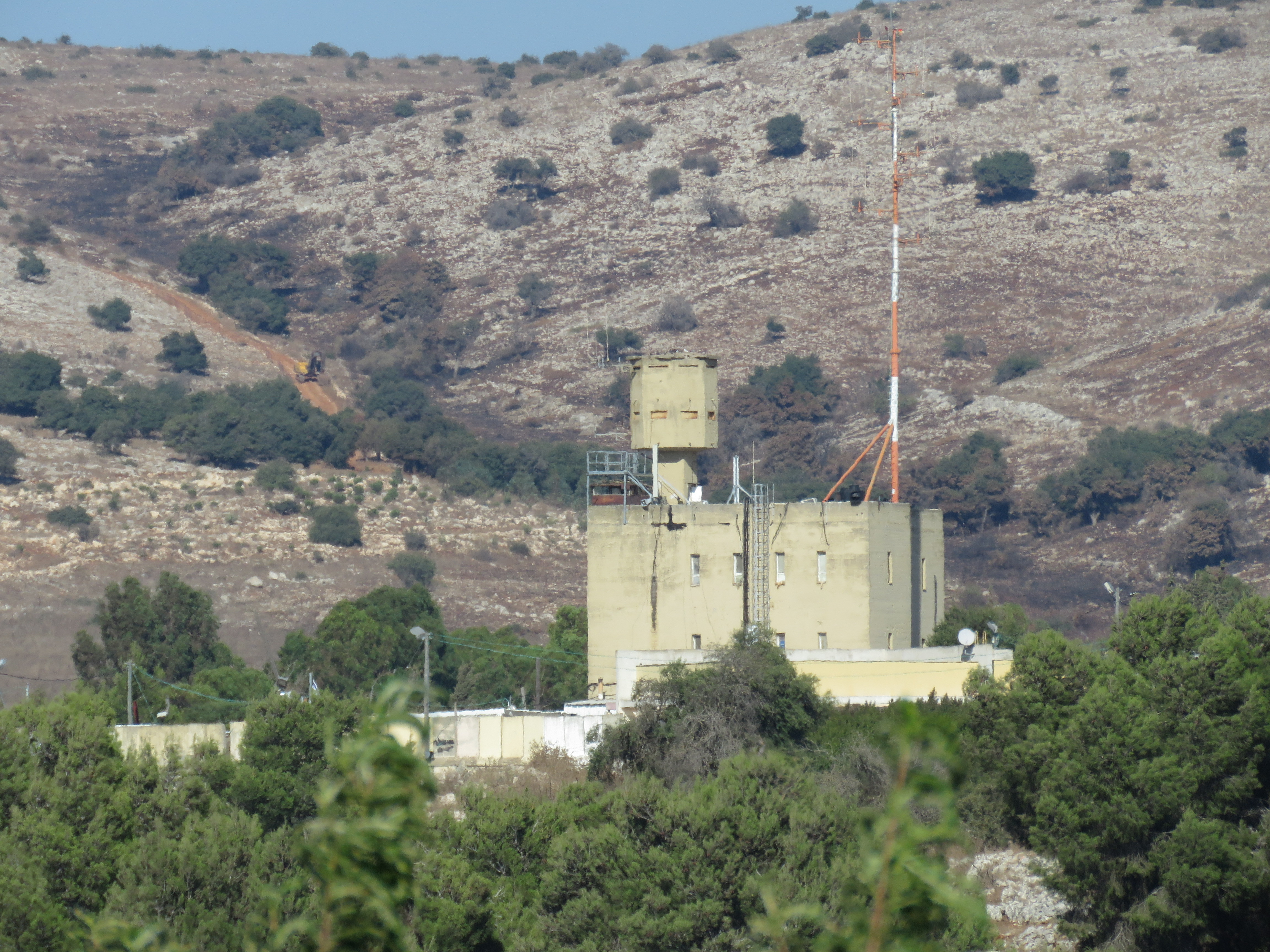 Saliha police station